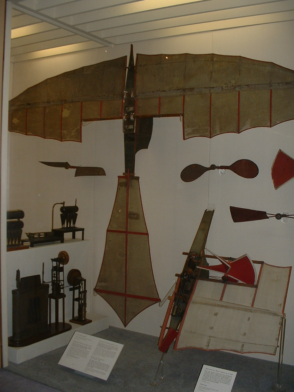 Picture taken at the Science Museum, London, on 02-Jan-06